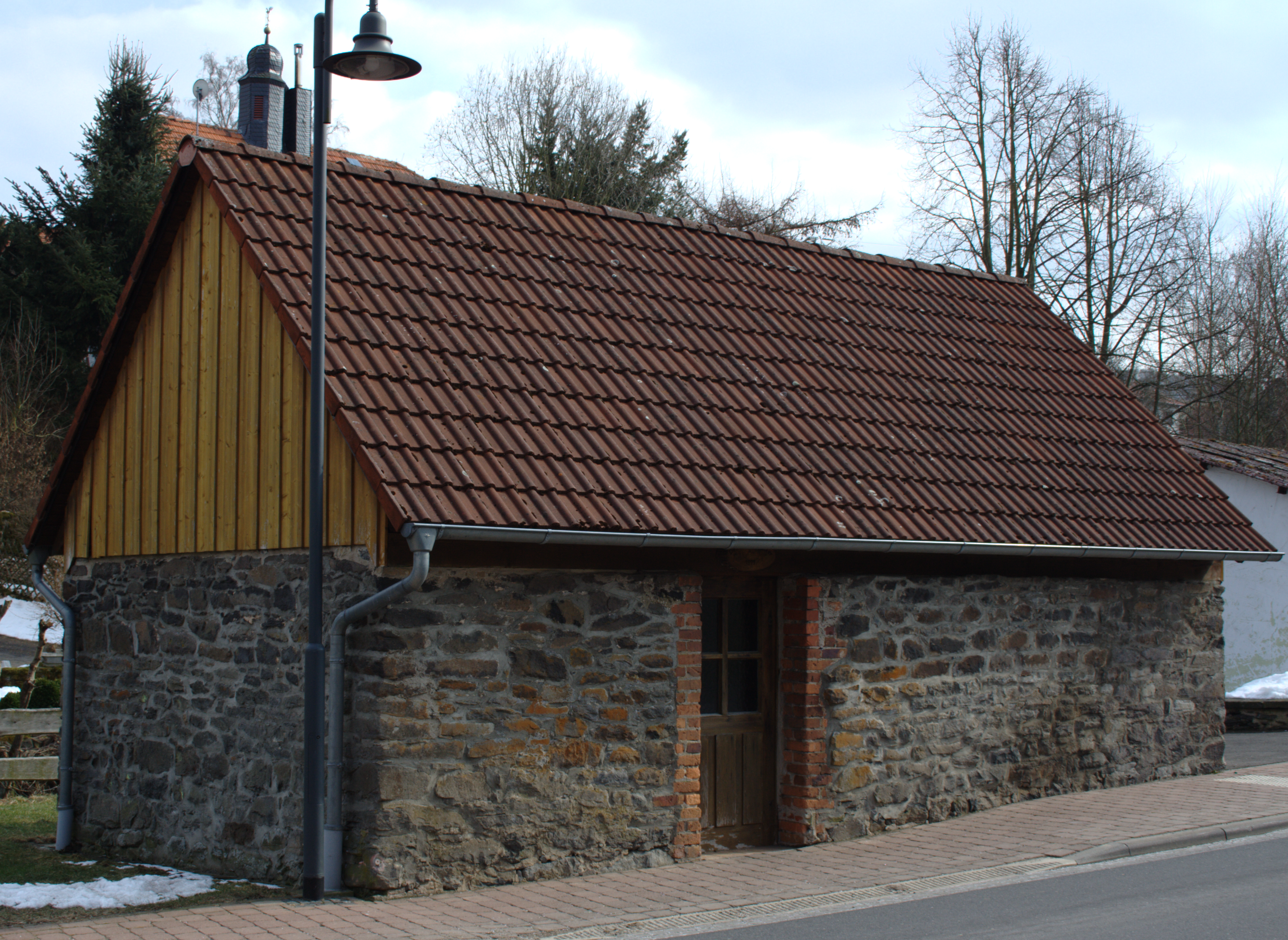 Building (Backhaus) in Zahmen Am Moosbach, Grebenhain, Hesse, Germany